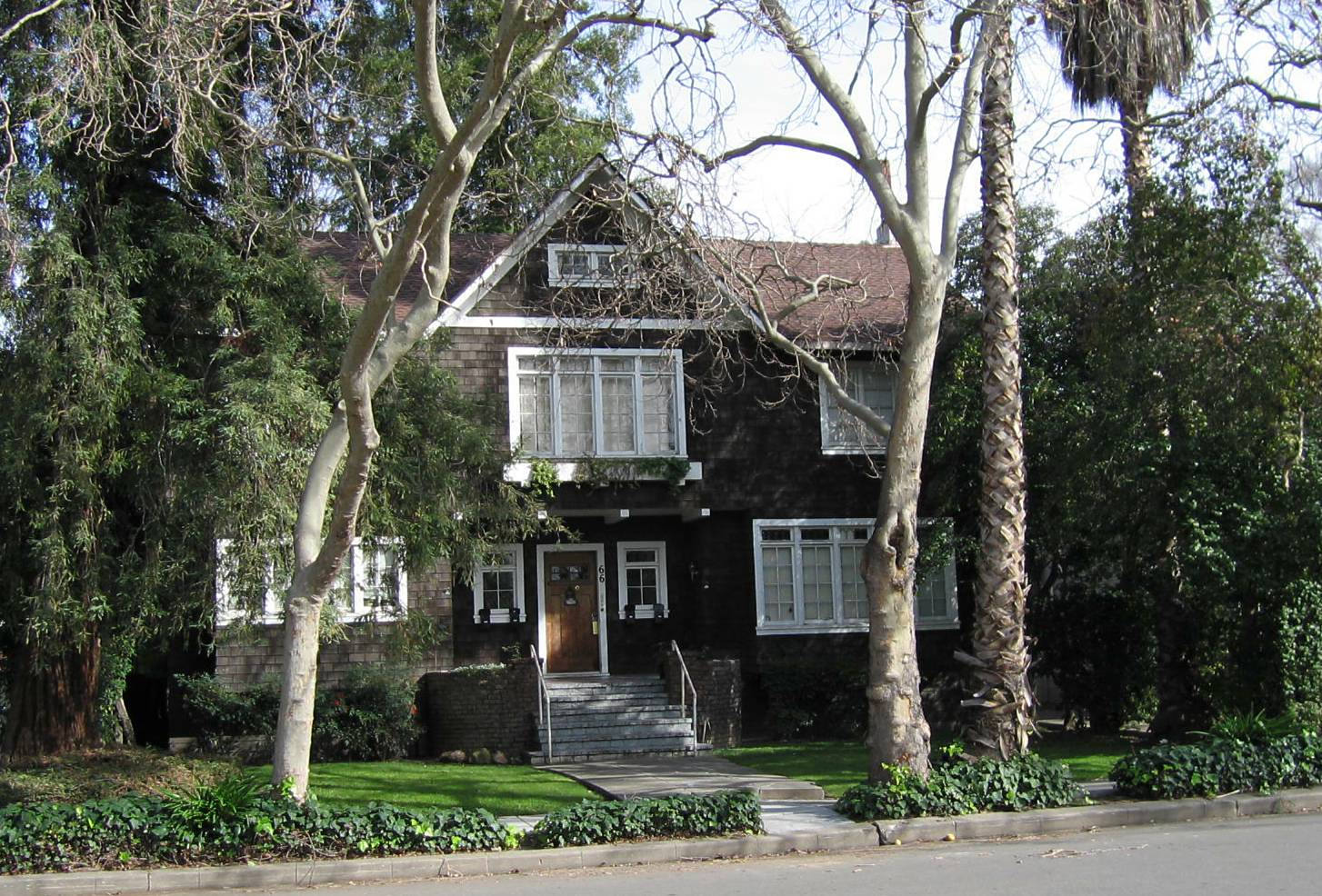 House of Don and Annie Palmer, 66 S. 14th Street, San Jose, 1906; also known as the A.M.Free house named after its second owner, and a listed historic resource